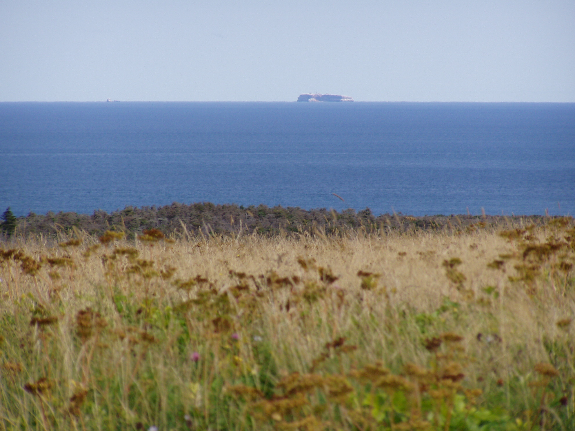 Northern tip of Brion Island with Bird Rock in the distance